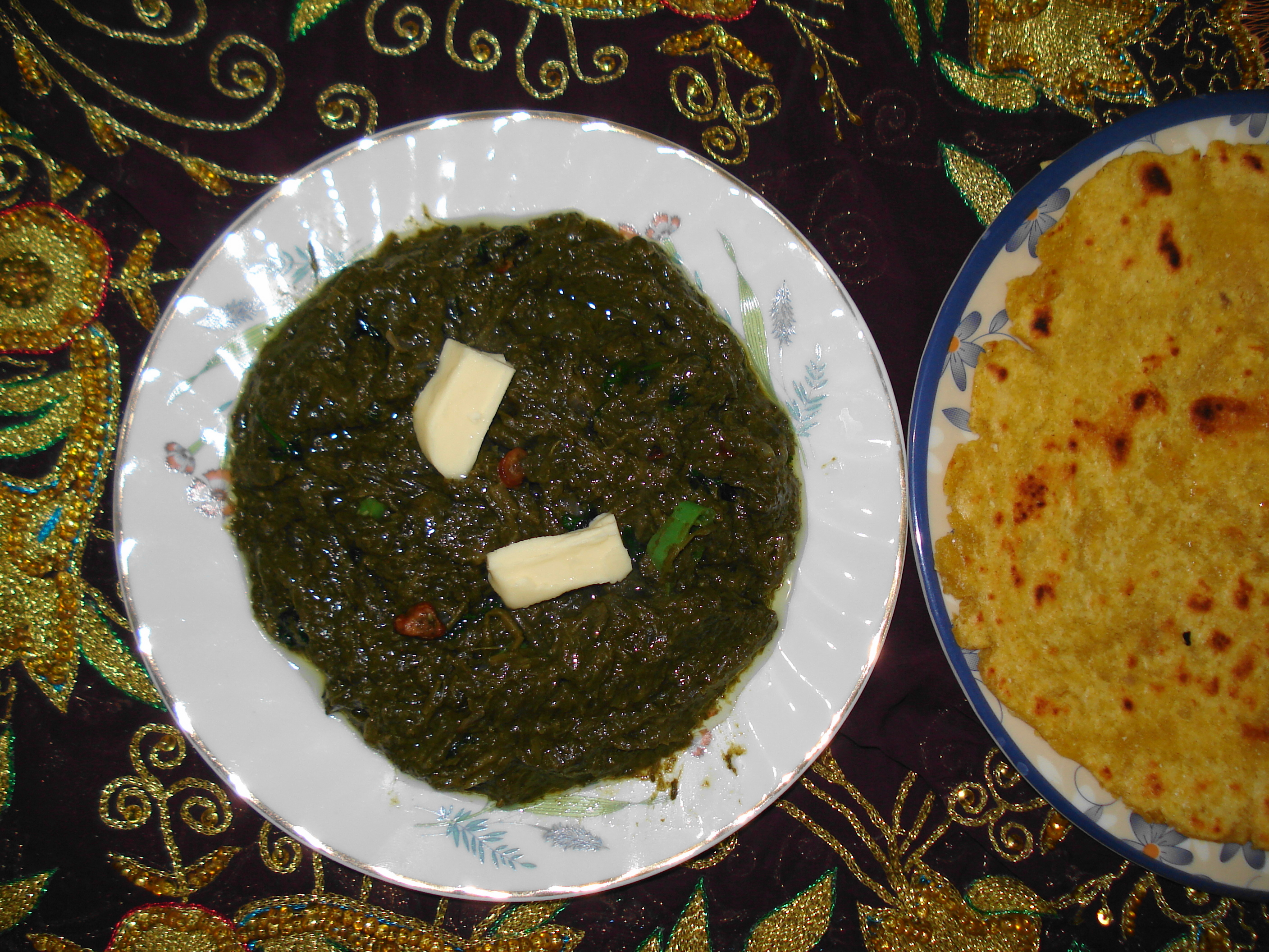 Sarso(o)n ka saag with makai ki roti and butter topping